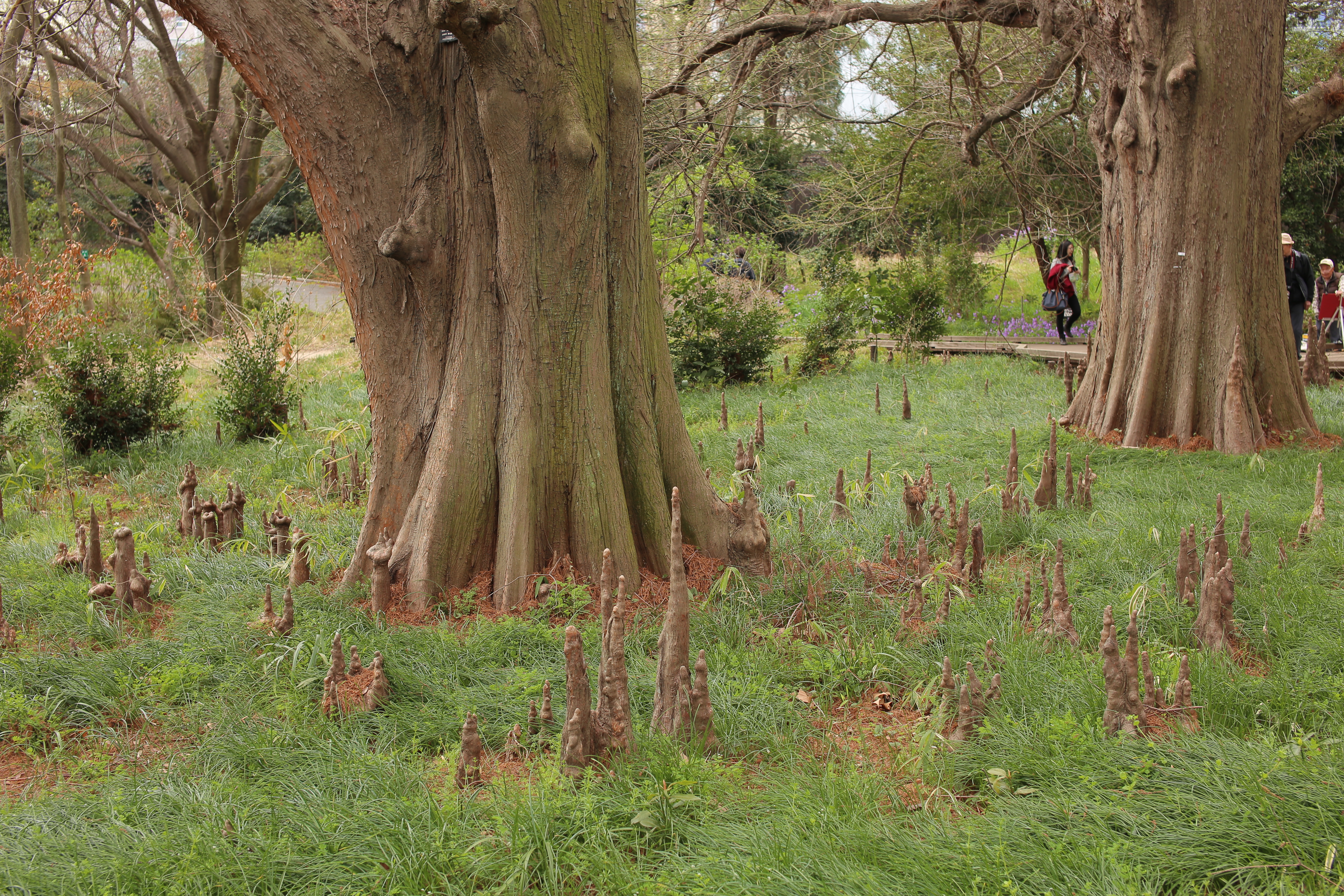 Cypress knees of a tree in the Shinjuku park in Tokyo, Japan